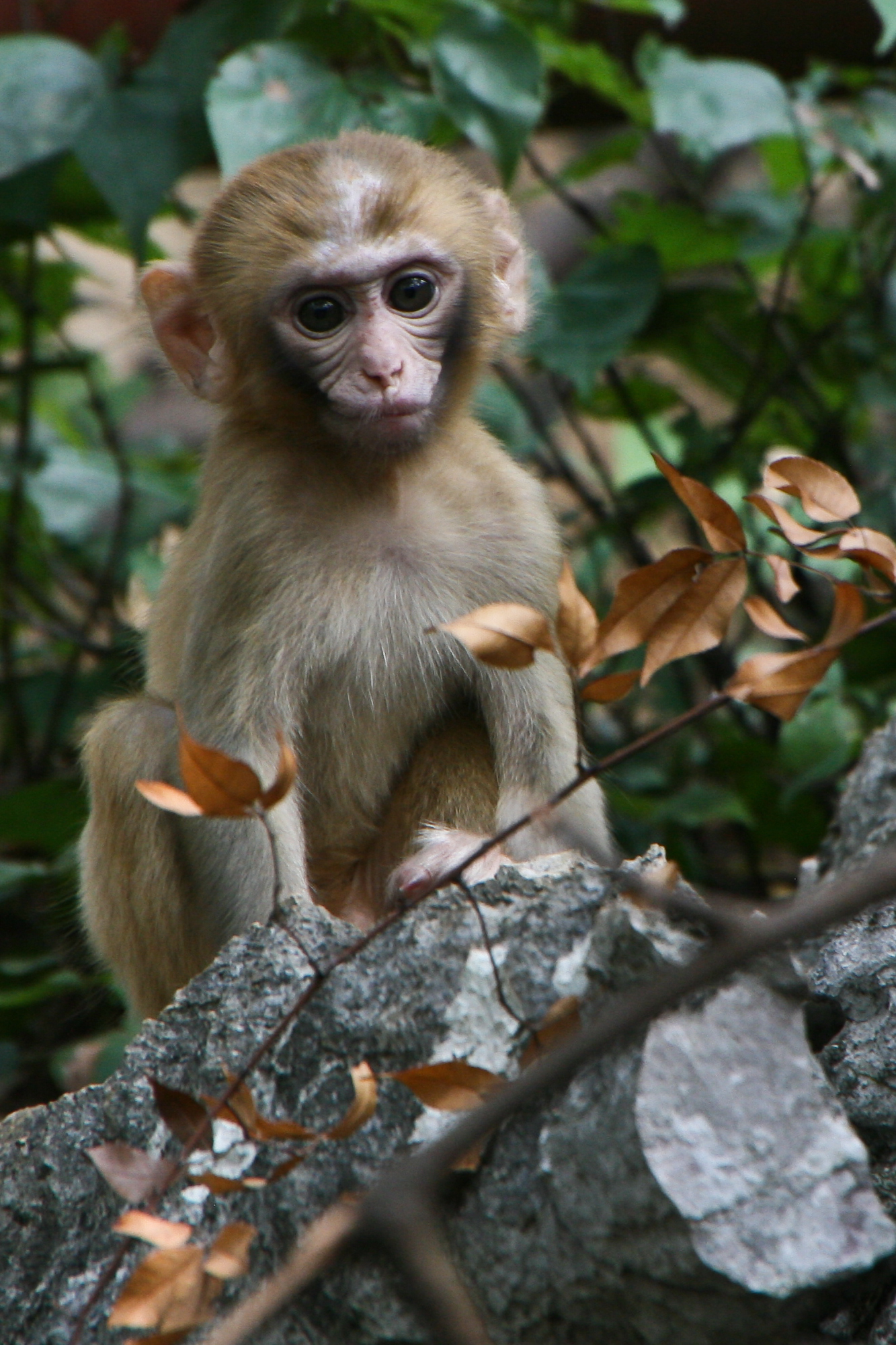 Young Rhesus Macaque (Macaca mulatta) in Qixing Gongyuan (Seven Star Park), Guilin, China.